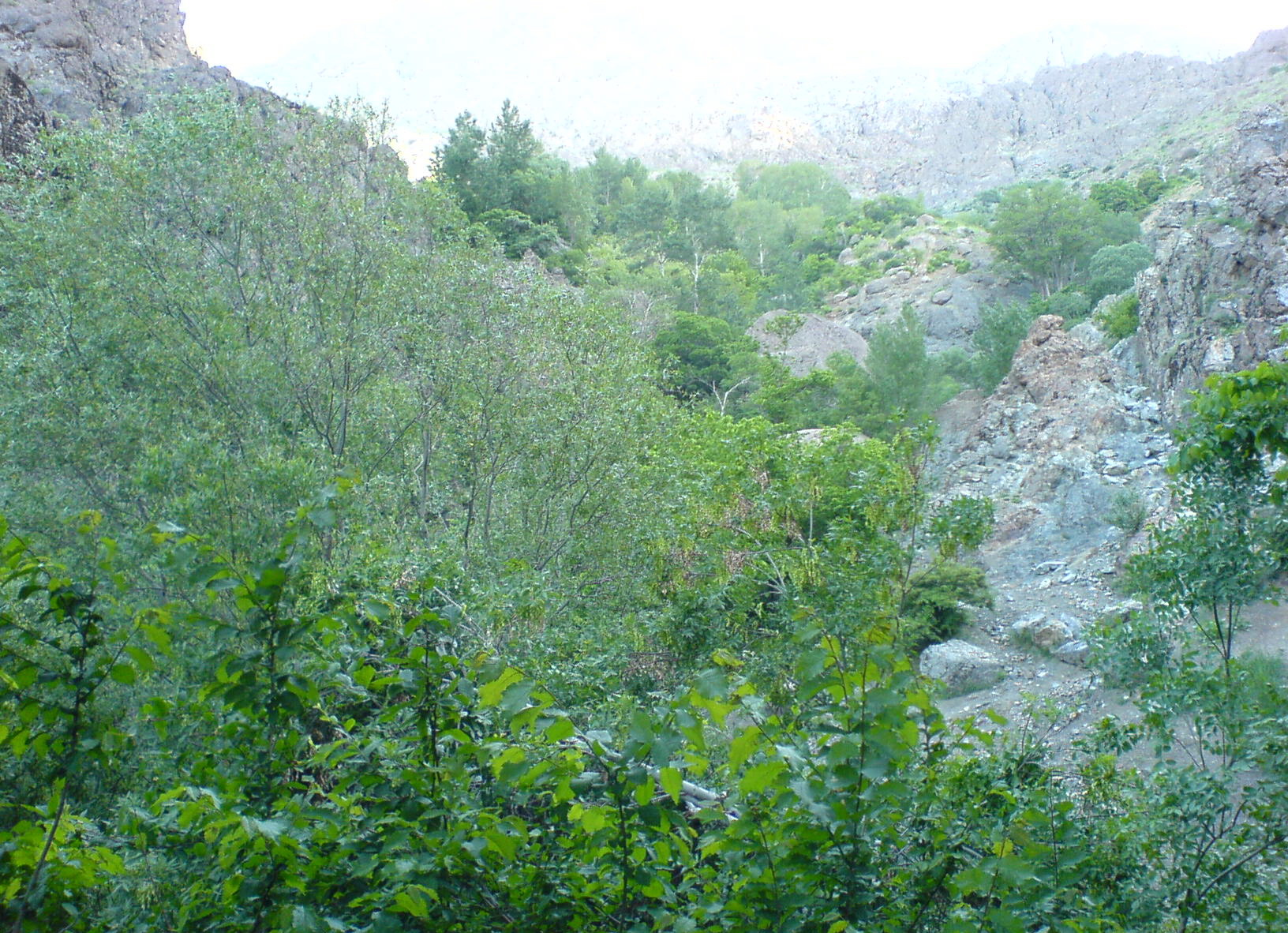 Golabdarre Valley in the North of Tehran, Iran.